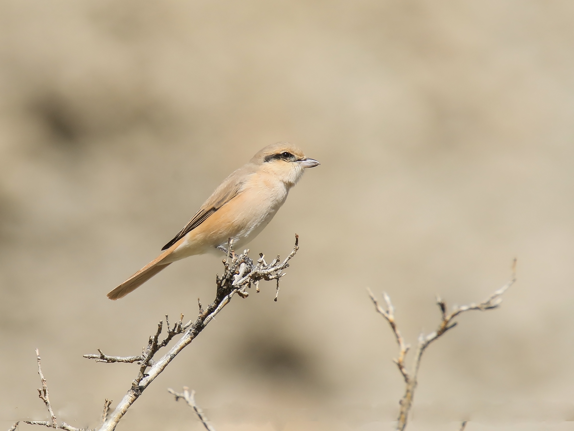 Rufous-tailed Shrike (Lanius isabellinus) captured at Borit, Gojal, Gilgit-Baltistan, Pakistan